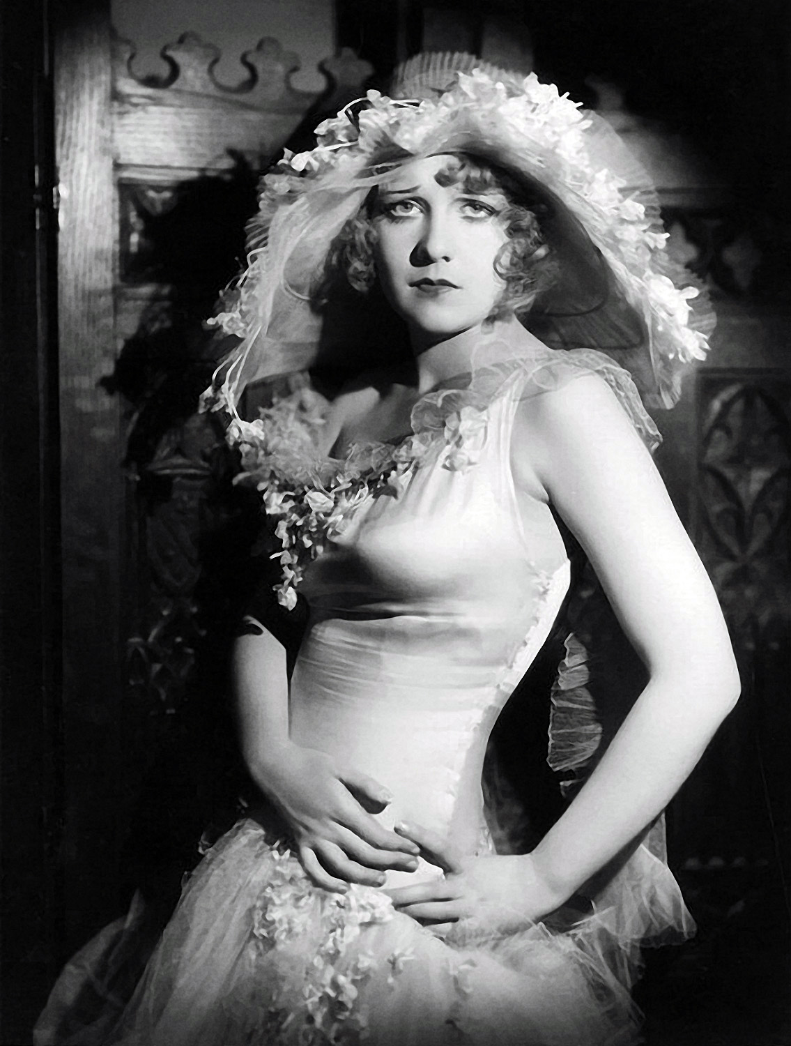 Still of Anita Page for the film Our Modern Maidens (1929).